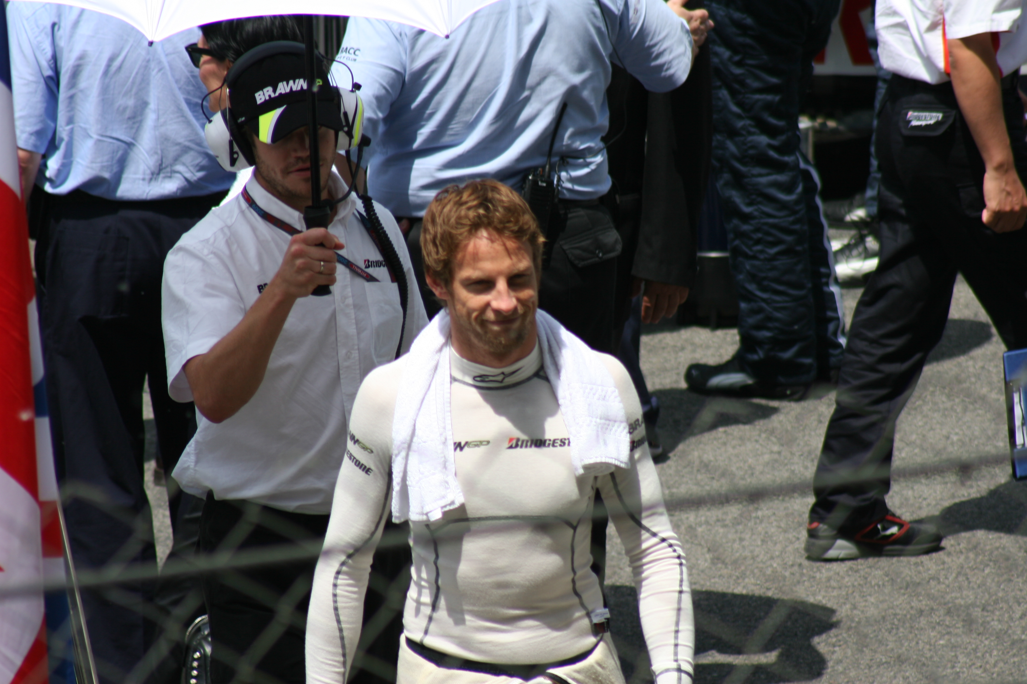 A very fit Jense!